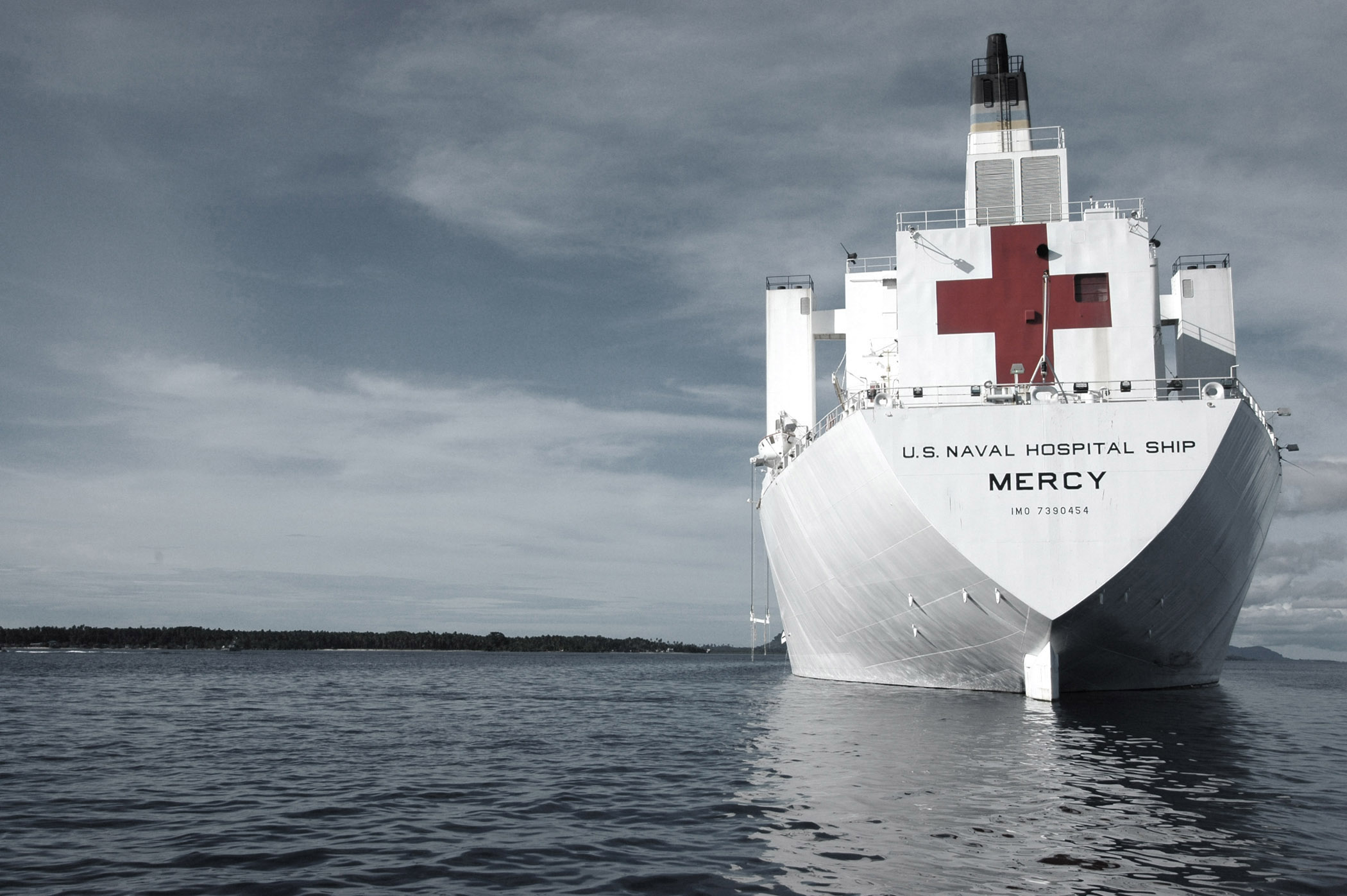 Tawi-Tawi, Philippines (June 11, 2006) - U.S. Military Sealift Command (MSC) Hospital Ship USNS Mercy (T-AH 19) anchors off the city coast, while the ship and her crew begin their 1st day of humanitarian aid. The ship will bring patients aboard where its doctors will perform major surgeries to remove goiters and cataracts as well as repair cleft lips. Ashore, teams of doctors, nurses and corpsmen spend their time providing aid to patients not requiring treatment aboard the ship. Mercy's medical staff will provide a multitude of medical, dental and veterinary care for pets of the people who live in this region, together with their Filipino counterparts, both at local city medical centers and on the ship itself. Mercy is on a five-month deployment to South Asia, Southeast Asia, and the Pacific Islands. U.S. Navy photo by Journalist Seaman Apprentice Mike Leporati (RELEASED)